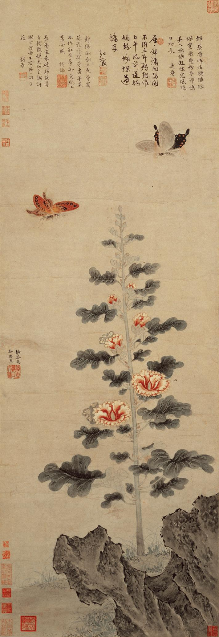 Hollyhock and Butterflies, hanging scroll, color on paper, 115 x 39.6 cm. Located at the Palace Museum. The poems along the top are from left to right: Liu Tai, Qiao Yin, Hong Gun, and Yi An.